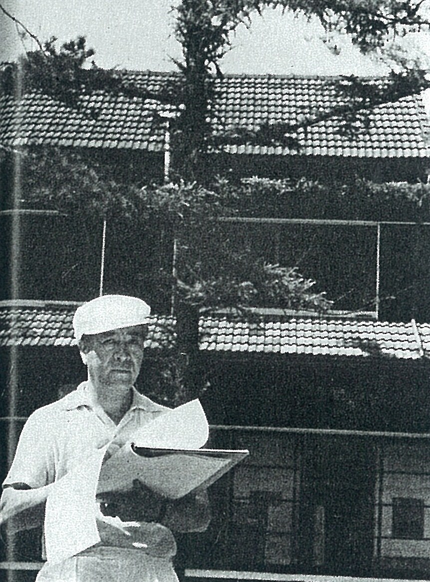 Keizo Koyama is a Japanese painter.